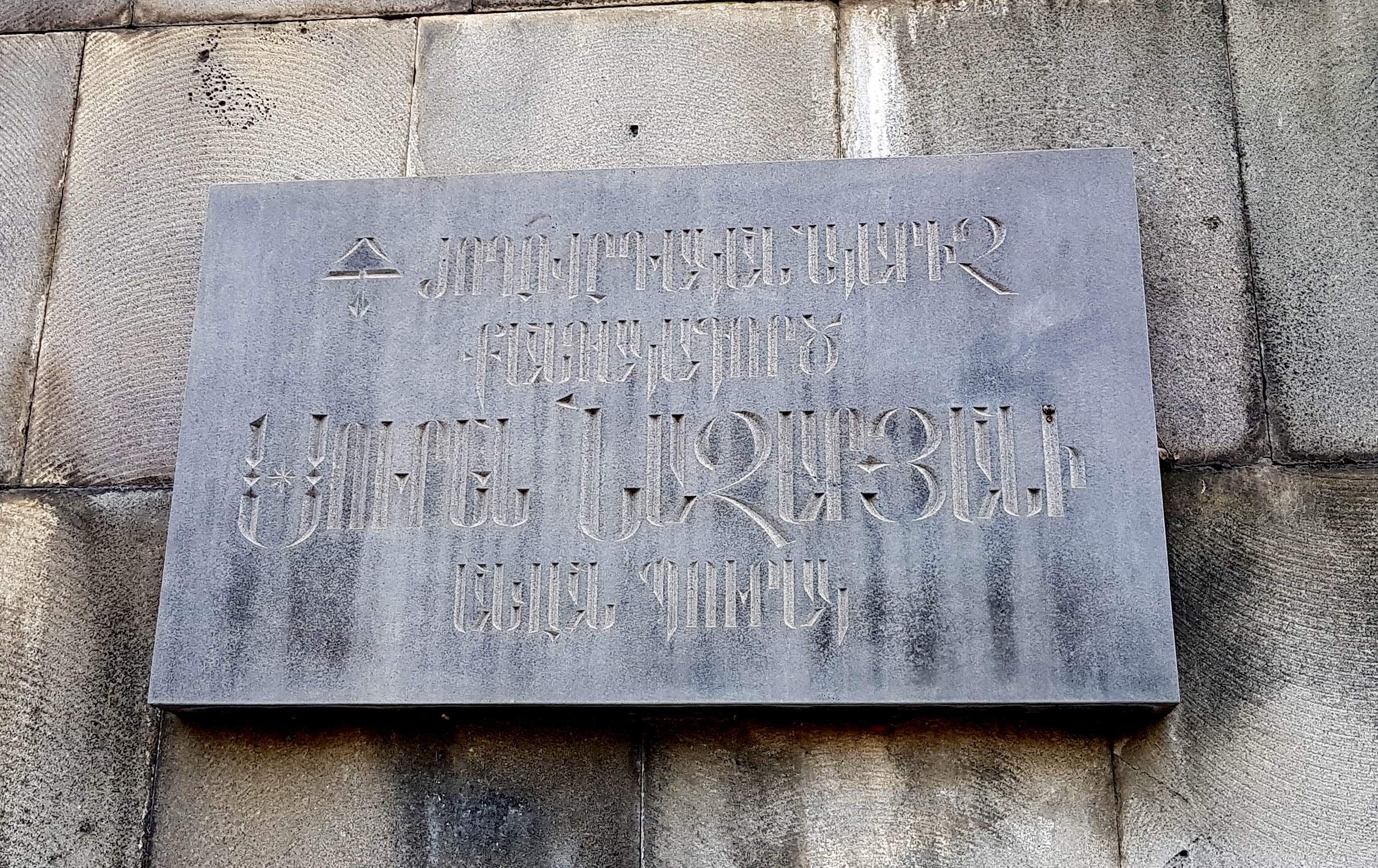 Suren Nazaryan's plaque in Nor Nork